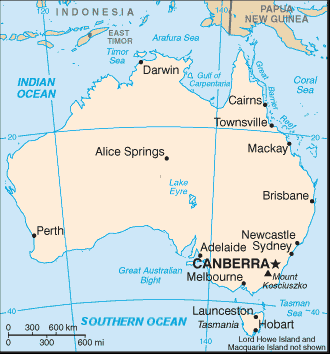 Australia - Outline map with coastline, borders, major and regional cities I can provide it in photoshop format on request, with landmass, coastline, state borders, major and regional cities all in separate layers for making customised maps. The original source map is also on a separate (invisible) layer.